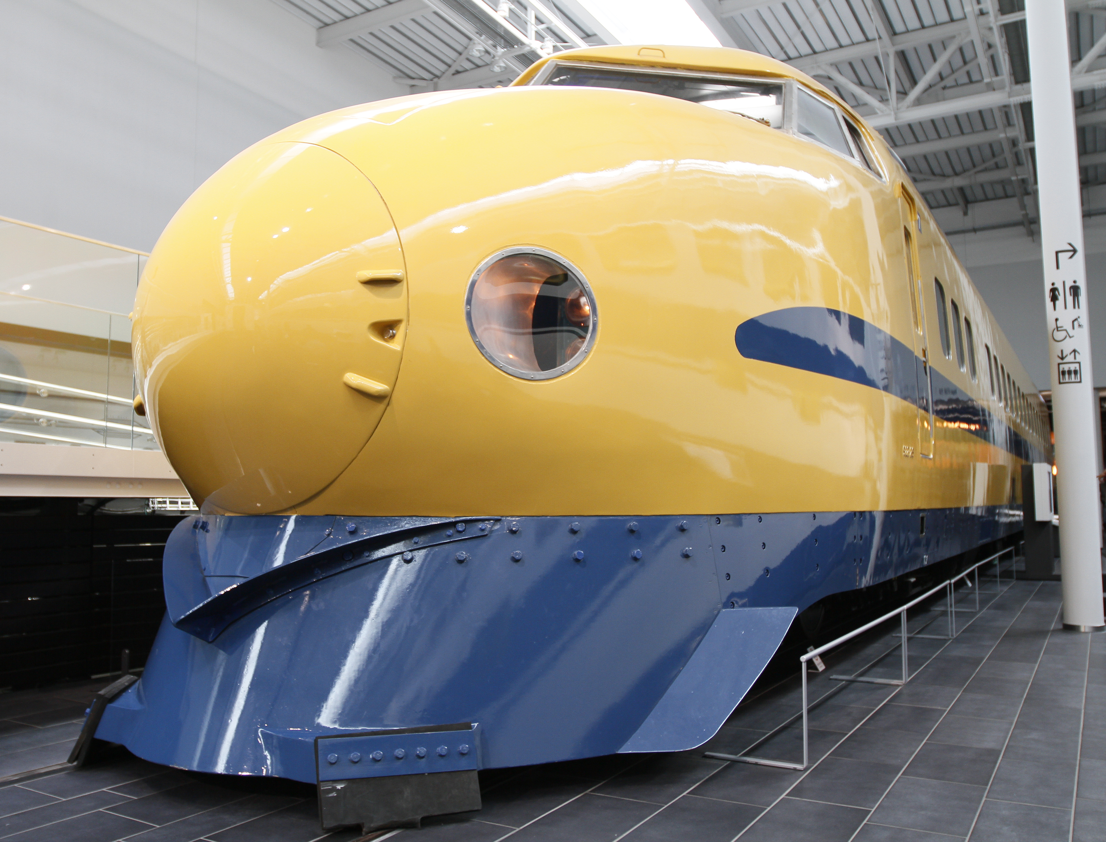 "Doctor Yellow" shinkansen car 922-26, formerly of set T3, at the SCMaglev and Railway Park in Nagoya, Japan